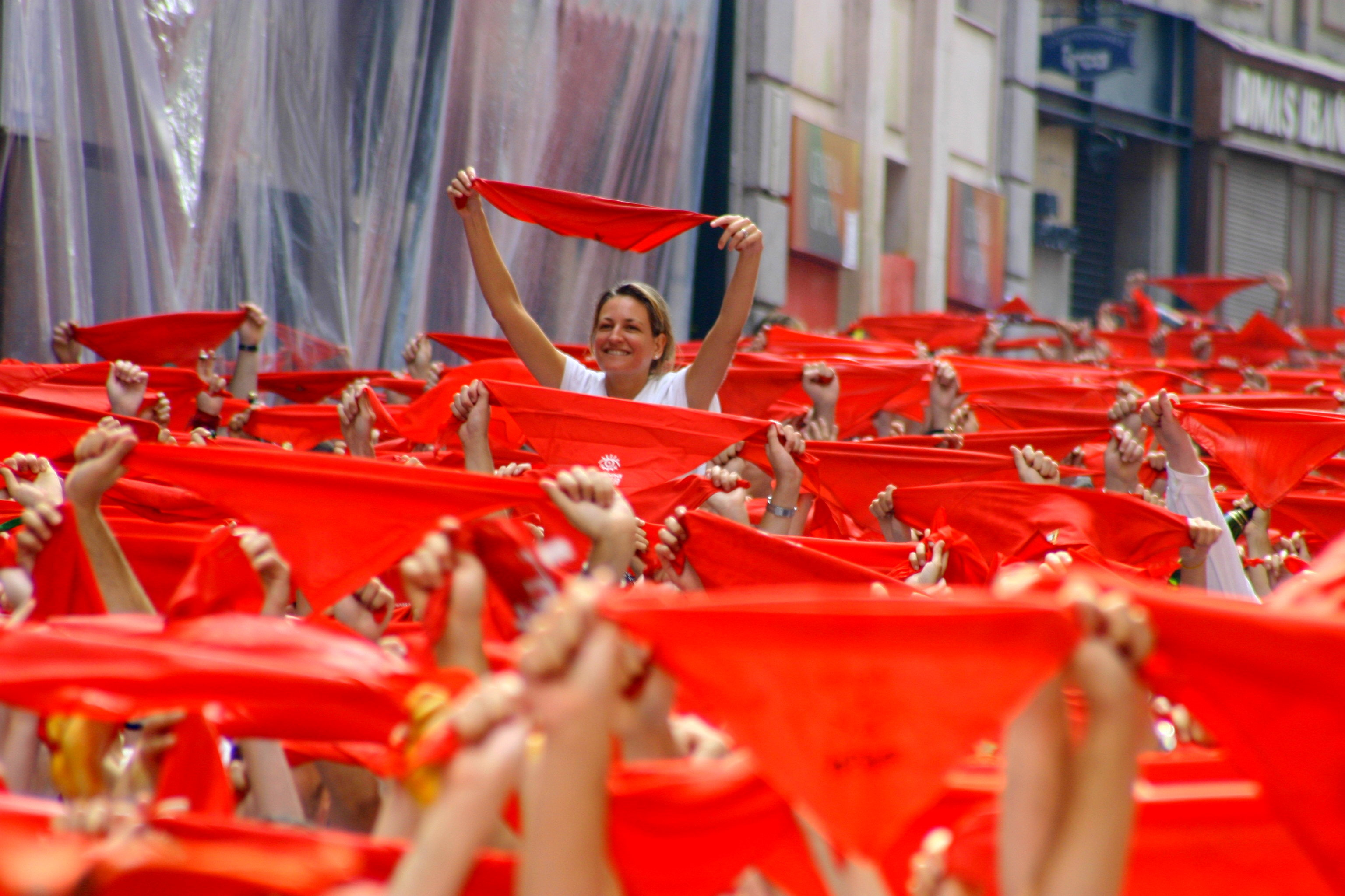 Txupinazo in San Fermin festivals.